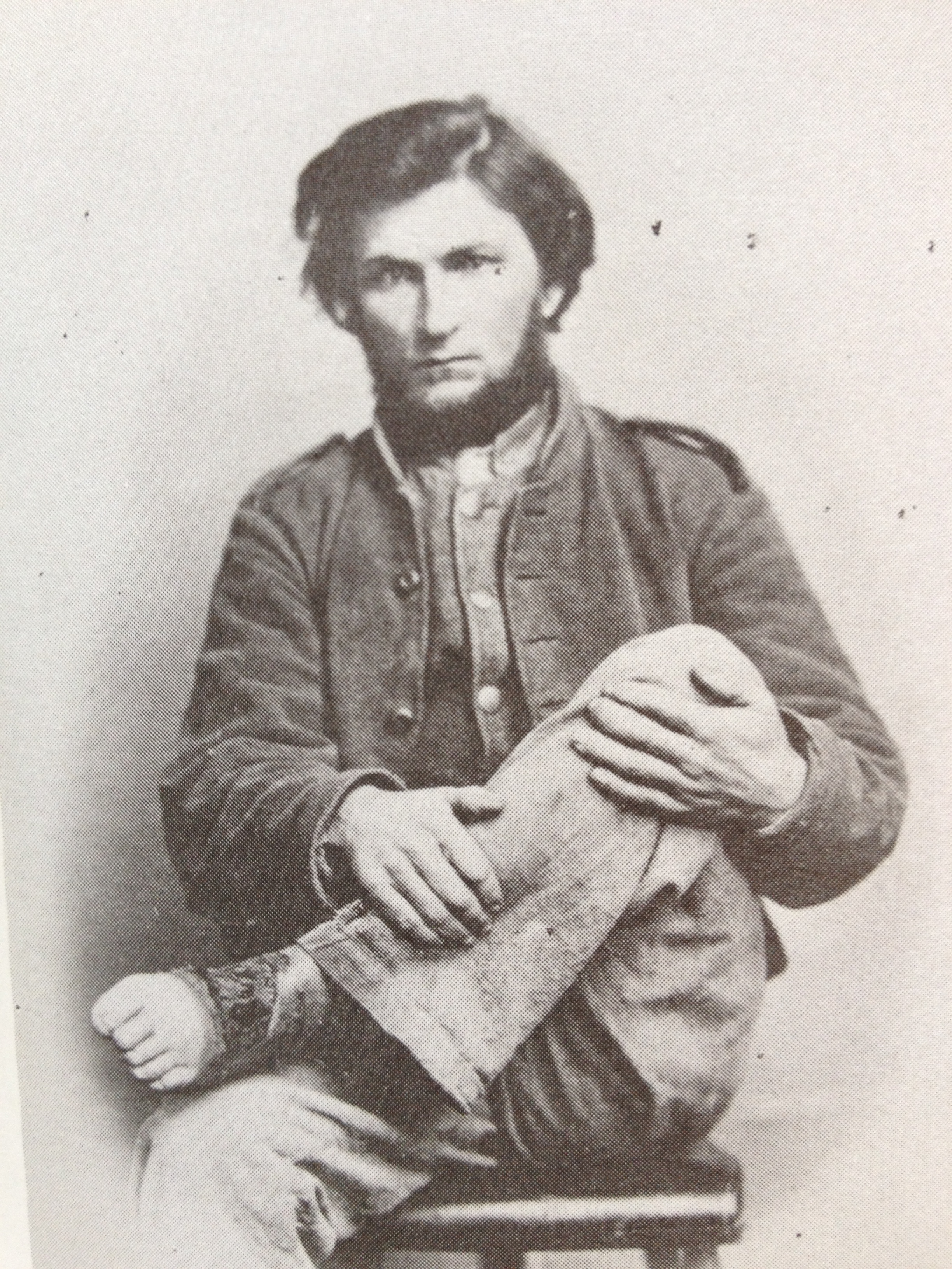 Pvt. Joseph Gray, Co. F, 12th Virginia Infantry, circa 1864, after the Battle of Burgess' Mill. Taken by Federal surgeons for the wound of his left foot.